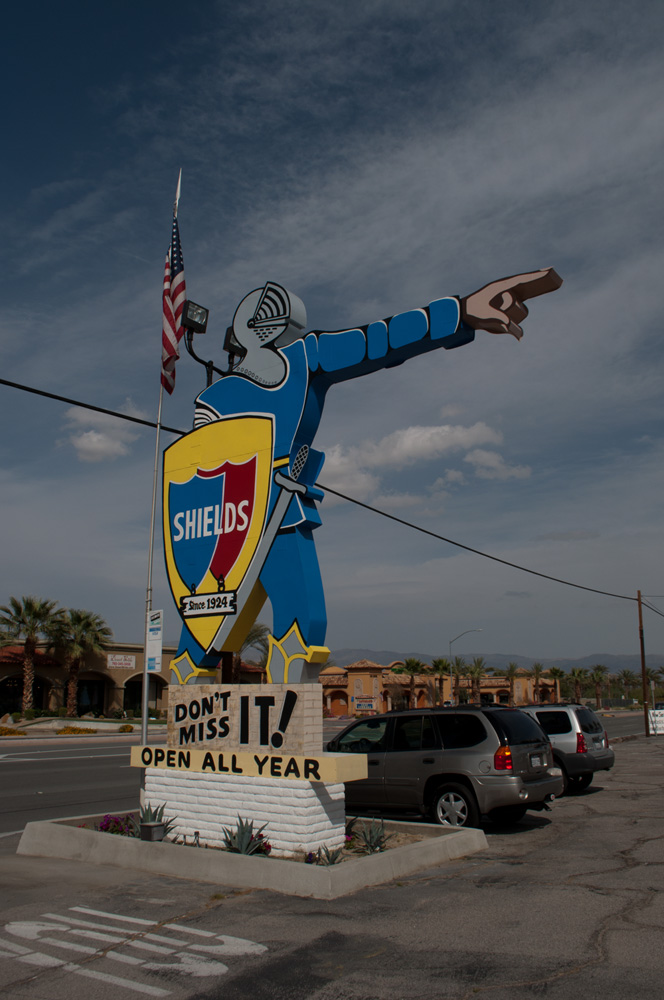 Lovely entrance sign off of Hwy 111.